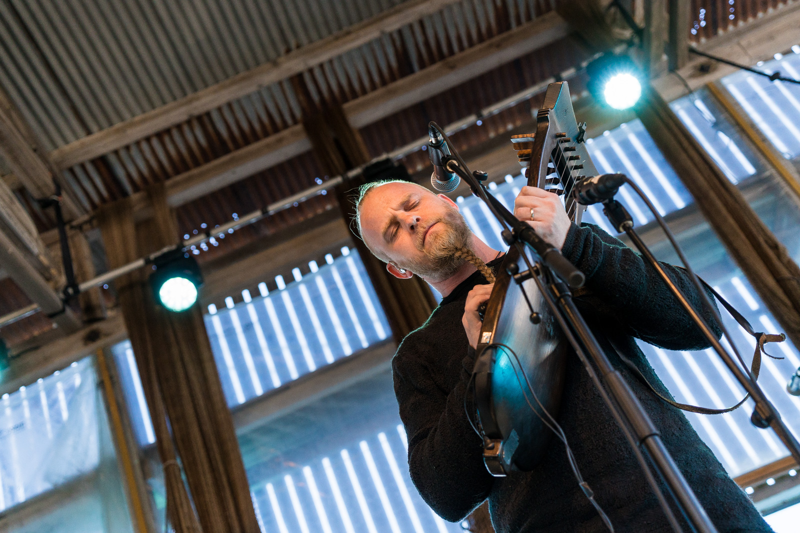 Einar Selvik performing in Bekkjarvik at Bergen International Music Festival